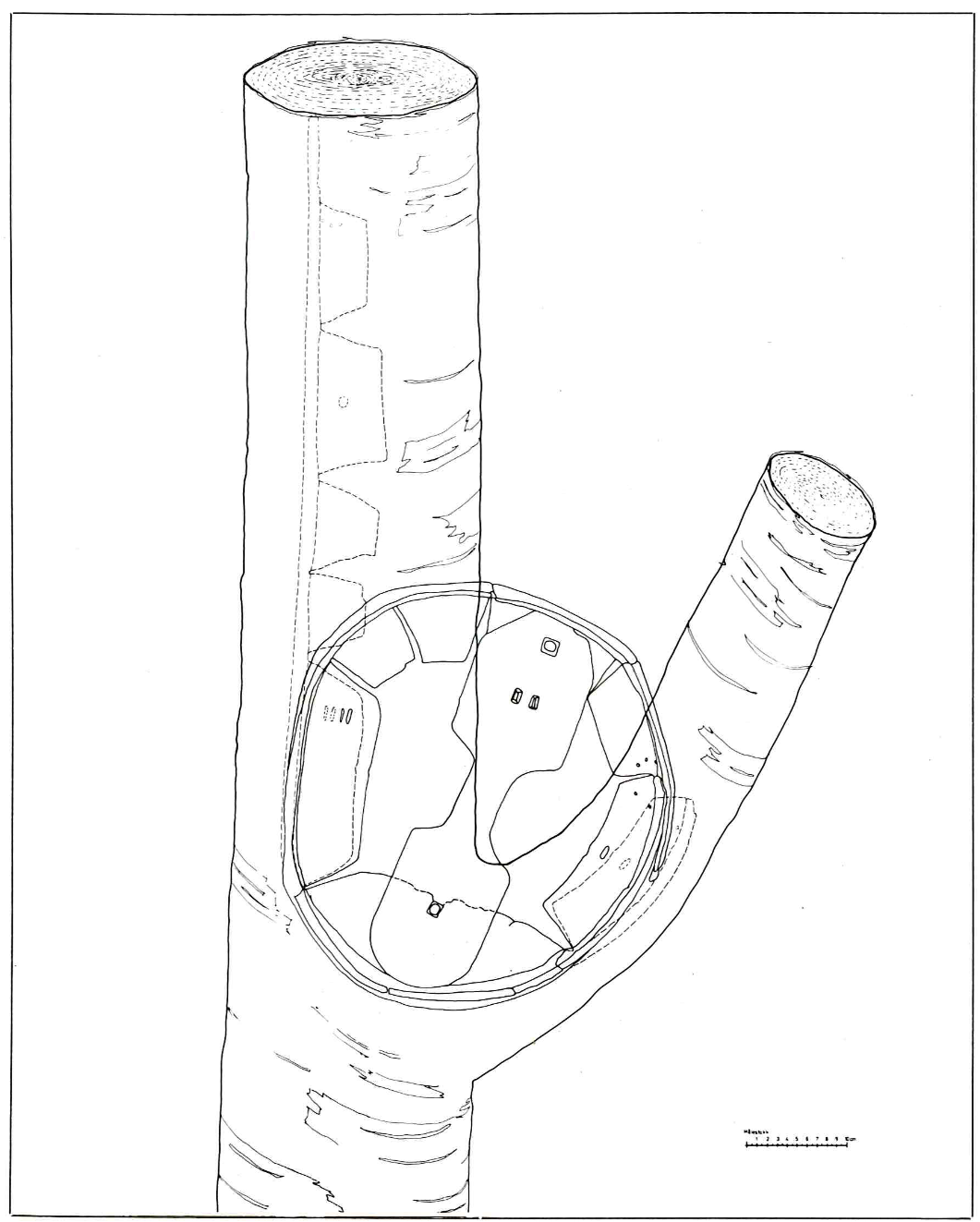 Presumed offspring in wood for a Sami drum from Steigen, Nordland, Norway; C14 dated to AD 1500; found in the 1950s